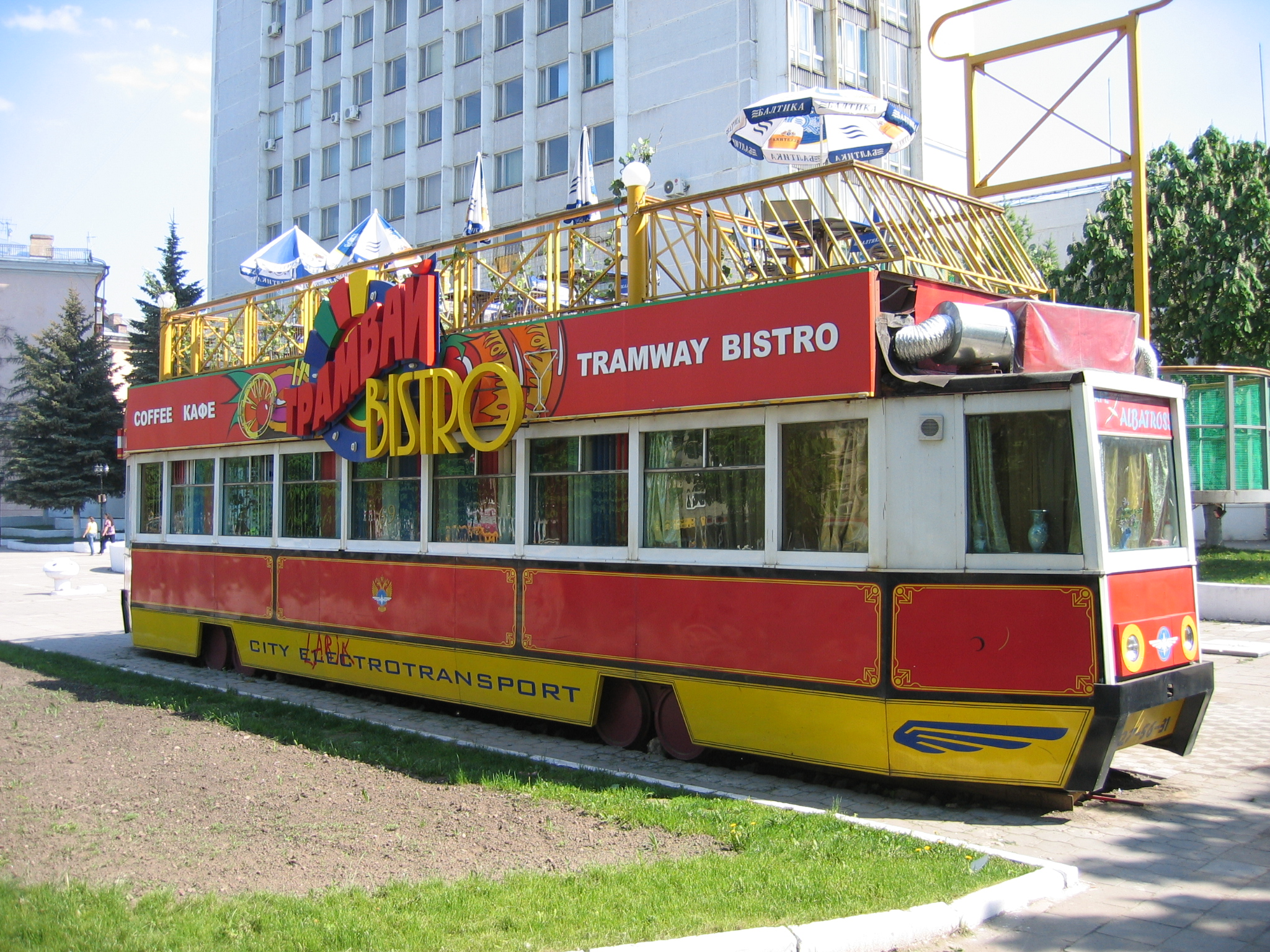 Tramway bistro in Tula, Russia